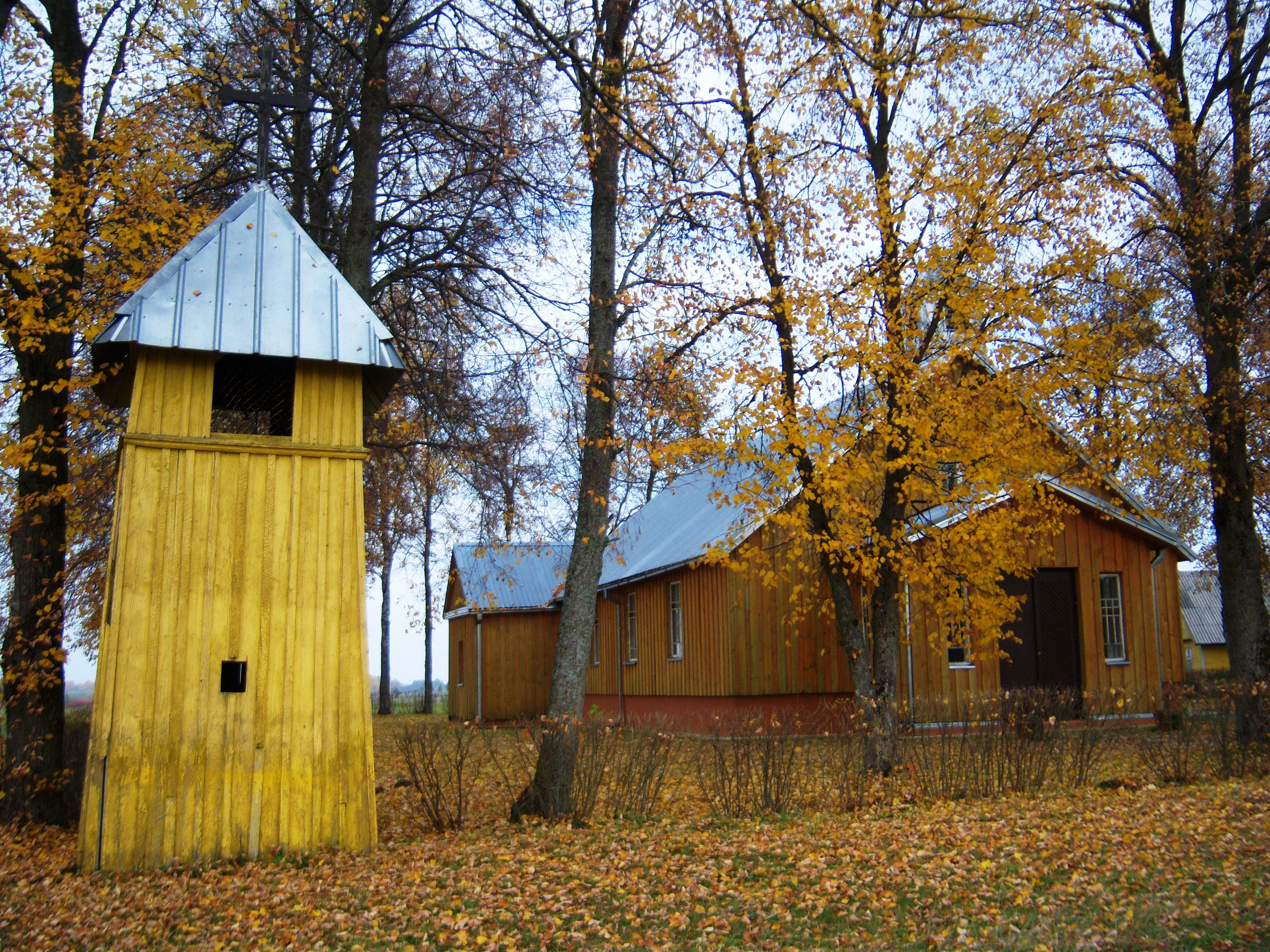 Roman Catholic Church, bell tower, Burbiškis, Anykščiai District, Lithuania